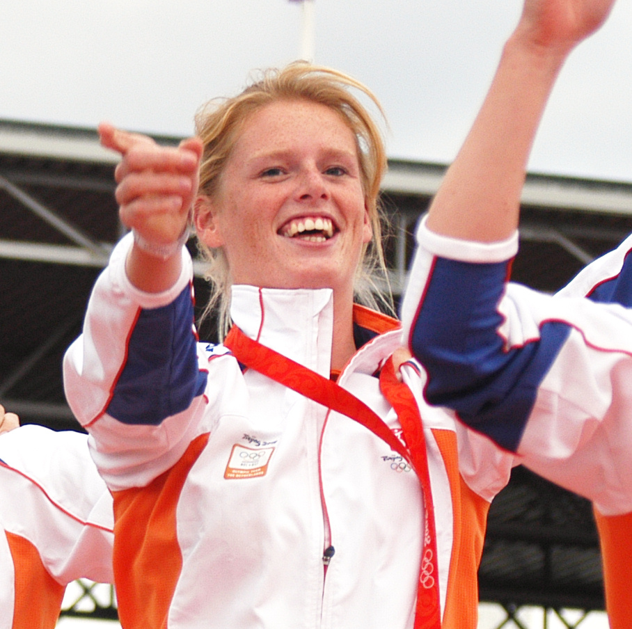 Annemiek de Haan at the Olympic welcome in the Olympic Stadium in Amsterdam, the Netherlands.